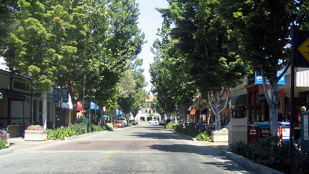 Murphy Street, Sunnyvale, California. This street in downtown Sunnyvale is the closest thing that the city has to a Main Street. Photographed by user Coolcaesar on August 24, 2005.